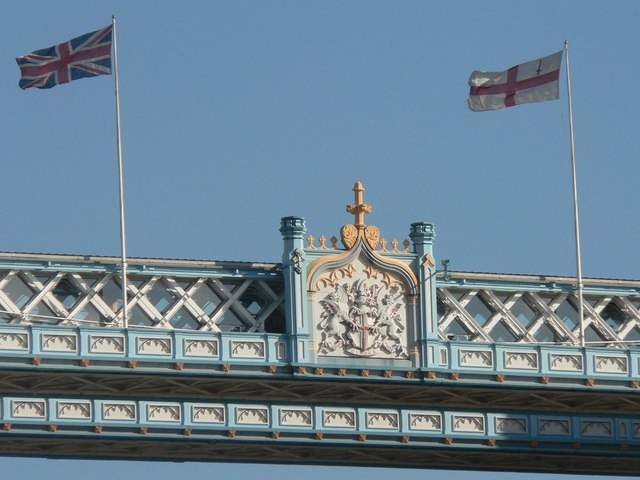 London: Tower Bridge - coat of arms and flags A closer look at the centre top of 560787. For an even closer-up of the coat of arms, see 560796.